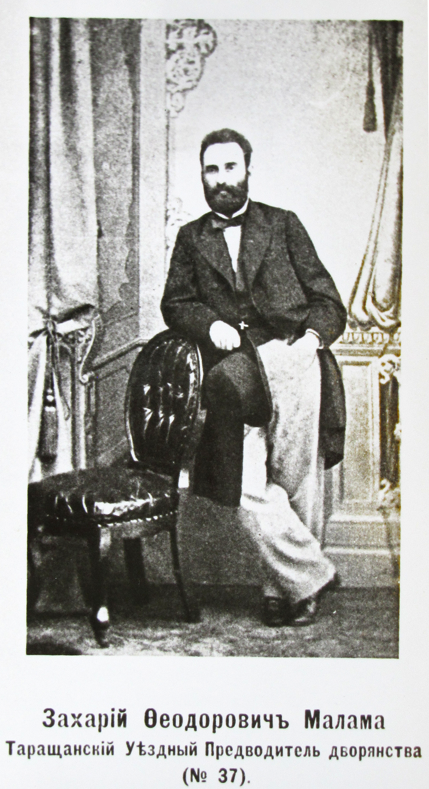 Zakharij Feodorovich Malama